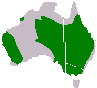 Range of the Black-tailed Nativehen Gallinula ventralis in green.